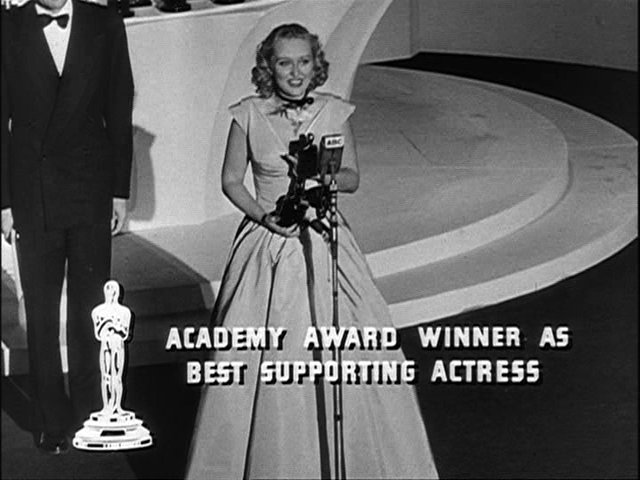 Cropped screenshot of Celeste Holm from the trailer for the film Gentleman's Agreement. The trailer made use of a small amount of external footage, including Holm's acceptance of her Academy Award for her performance in the film.